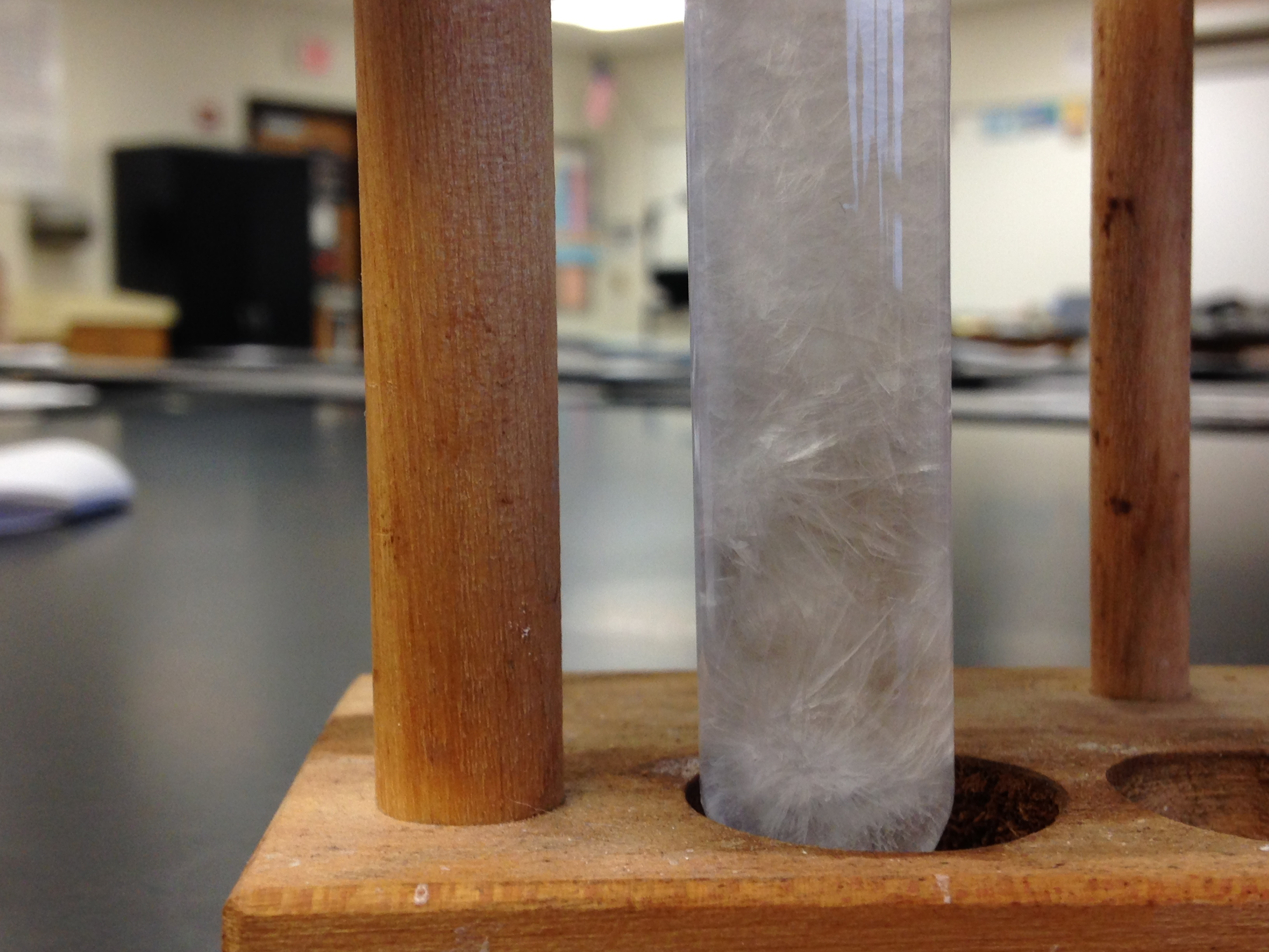 A chemistry lab practiced in class by sophomores in high school to learn more about solvents; this image is the final result of the lab, a supersaturated solution that has crystallized as it cooled to normal temperature